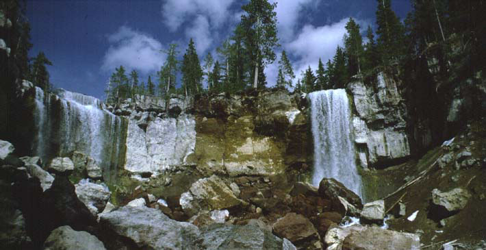 Paulina Creek Falls, Deschutes National Forest, Oregon.